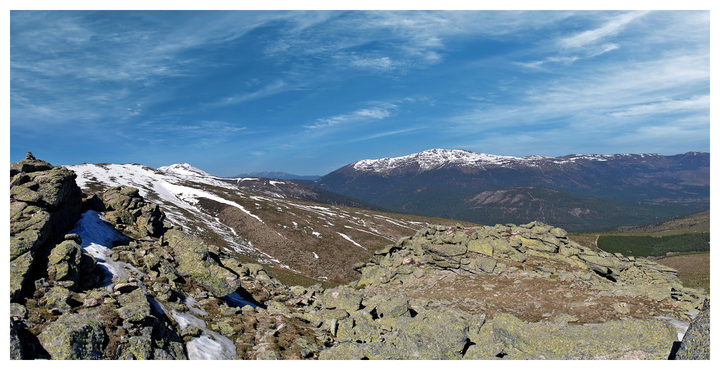 View of the Peñalara peak and El Paular Valley from the top of the hill of Bailanderos.